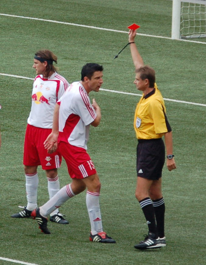 Gerald Lehner shows Thomas Linke (FC Red Bull Salzburg) the Red Card (from FC Red Bull Salzburg vs. FK Austria Wien in the stadium Wals-Siezenheim).